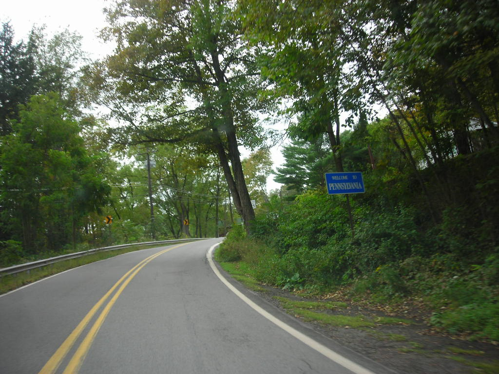 An image of the "Welcome to Pennsylvania" in the village of Damascus, Damascus Township, Wayne County, Pennsylvania.